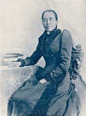 Anna Julia Haywood Cooper's photo from her book